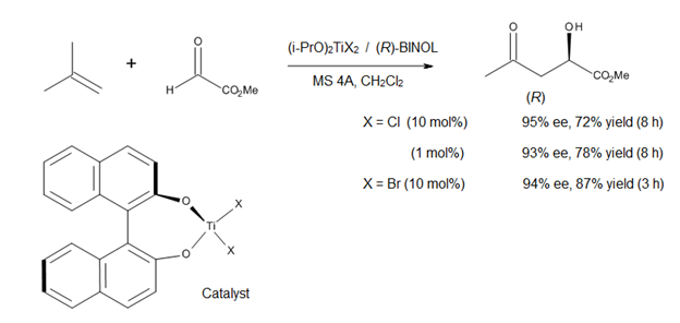 ene reaction